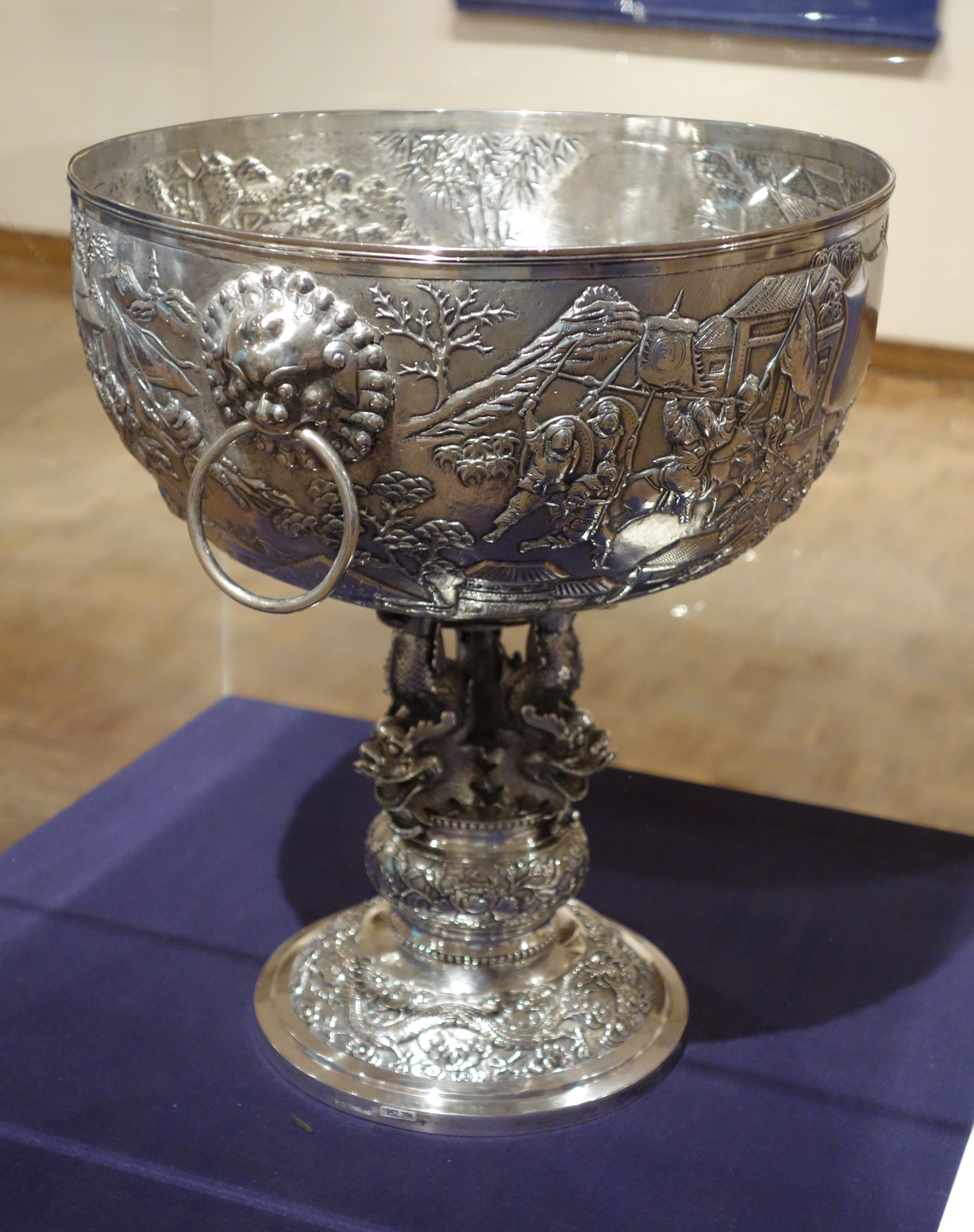 Exhibit in the Huntington Museum of Art, Huntington, West Virginia, USA. This artwork is in the public domain because the artist died more than 70 years ago.